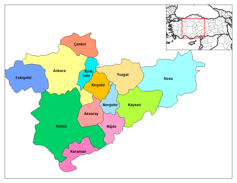 Map of Central Anatolia, Turkey